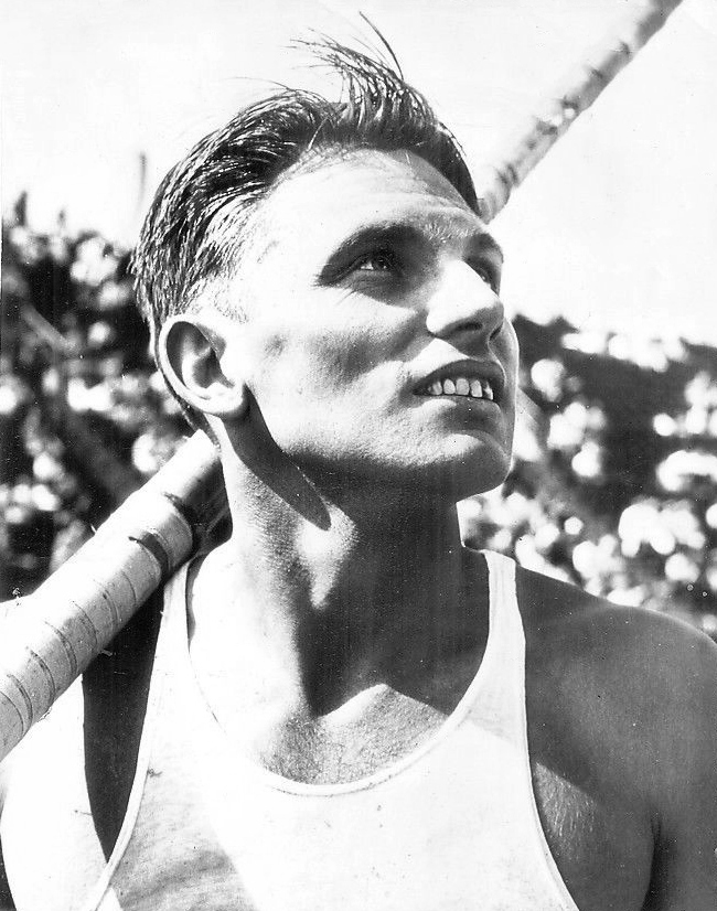 1942 AP wirephoto Cornelius Warmerdam in New York